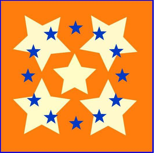 Logo Centra lokalne demokratije LDA